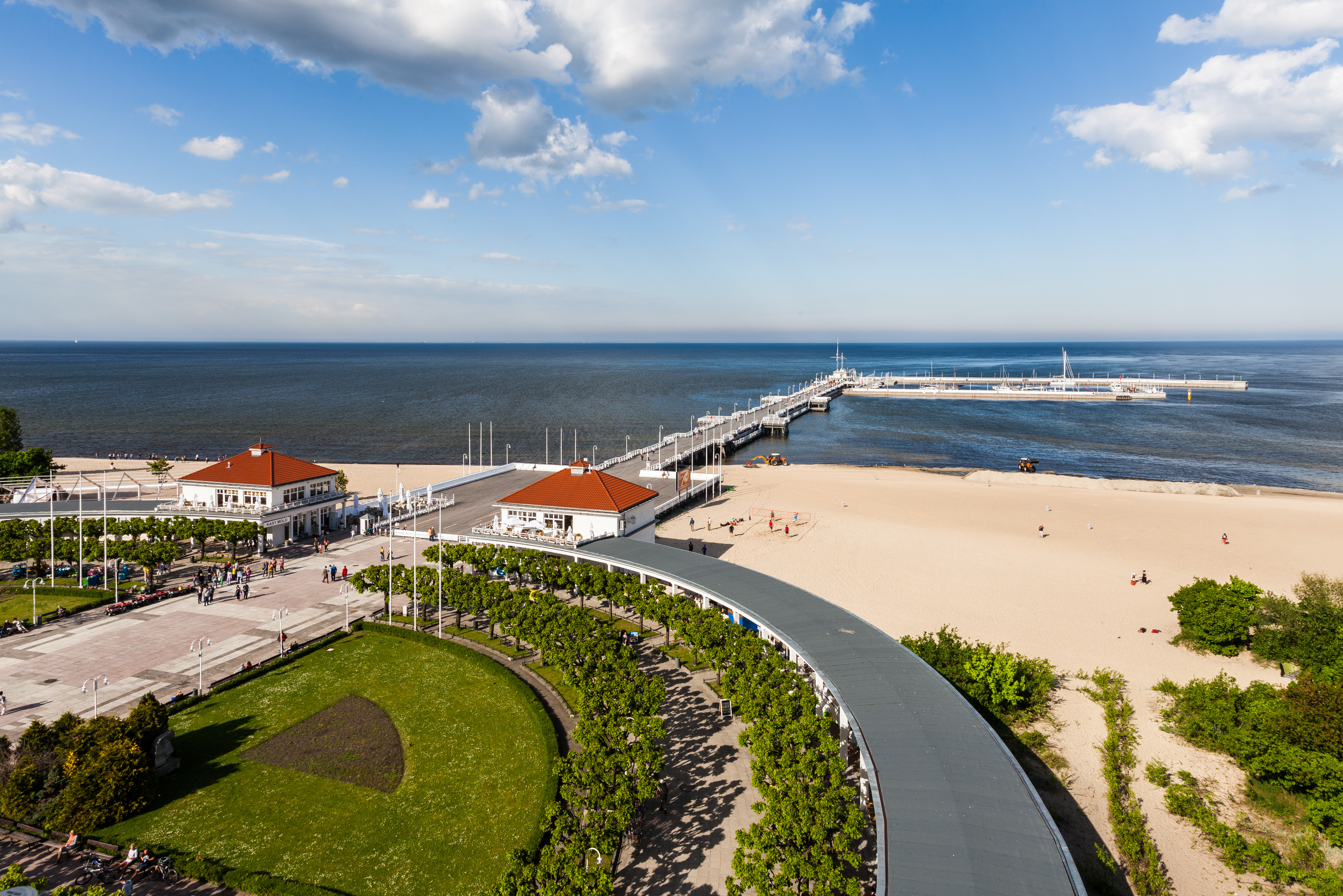 Promenade pier of Sopot, Poland